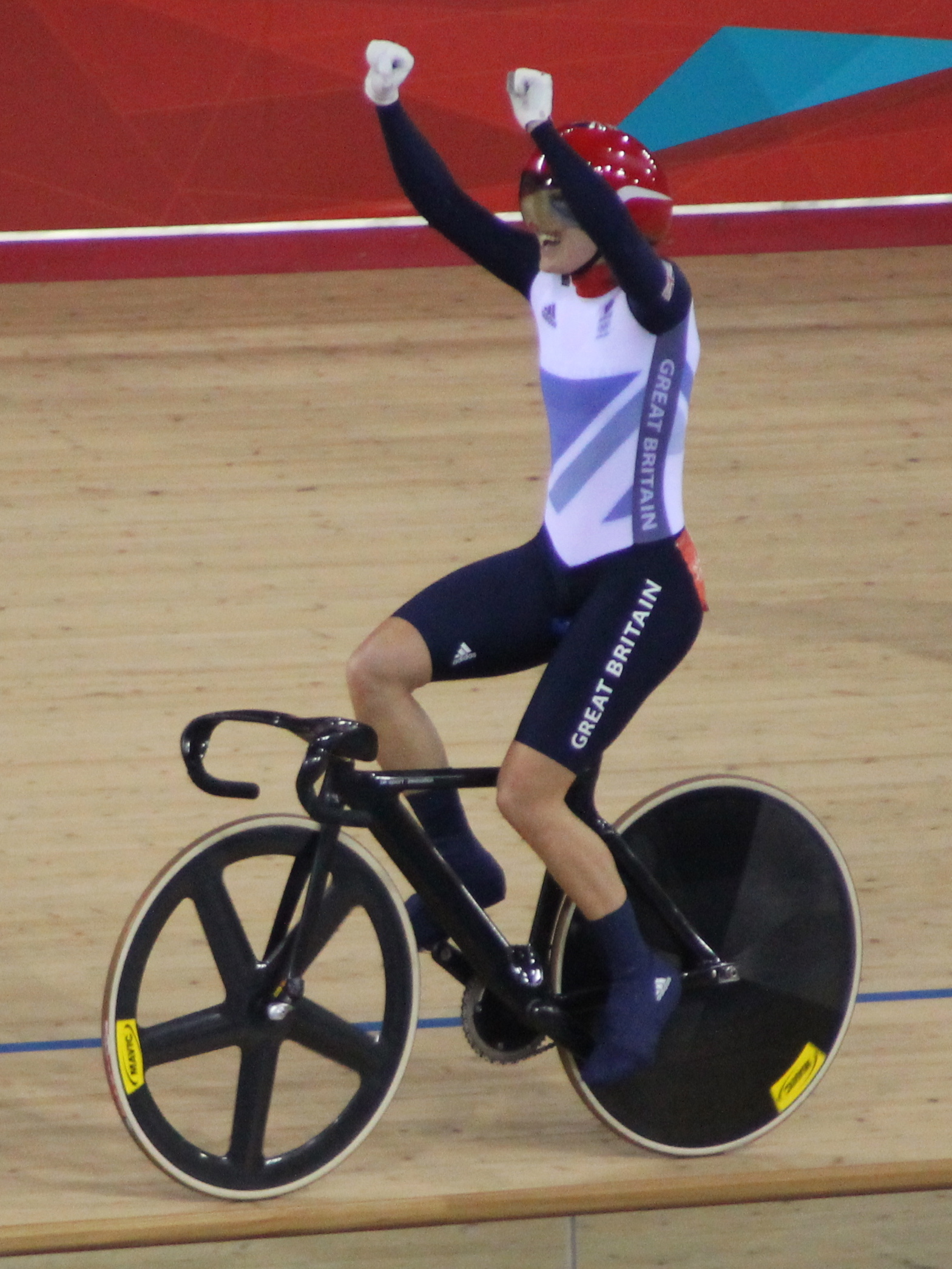 Victoria Pendelton celebrating victory at the Veldorome, London Olympics, 3 August 2012.